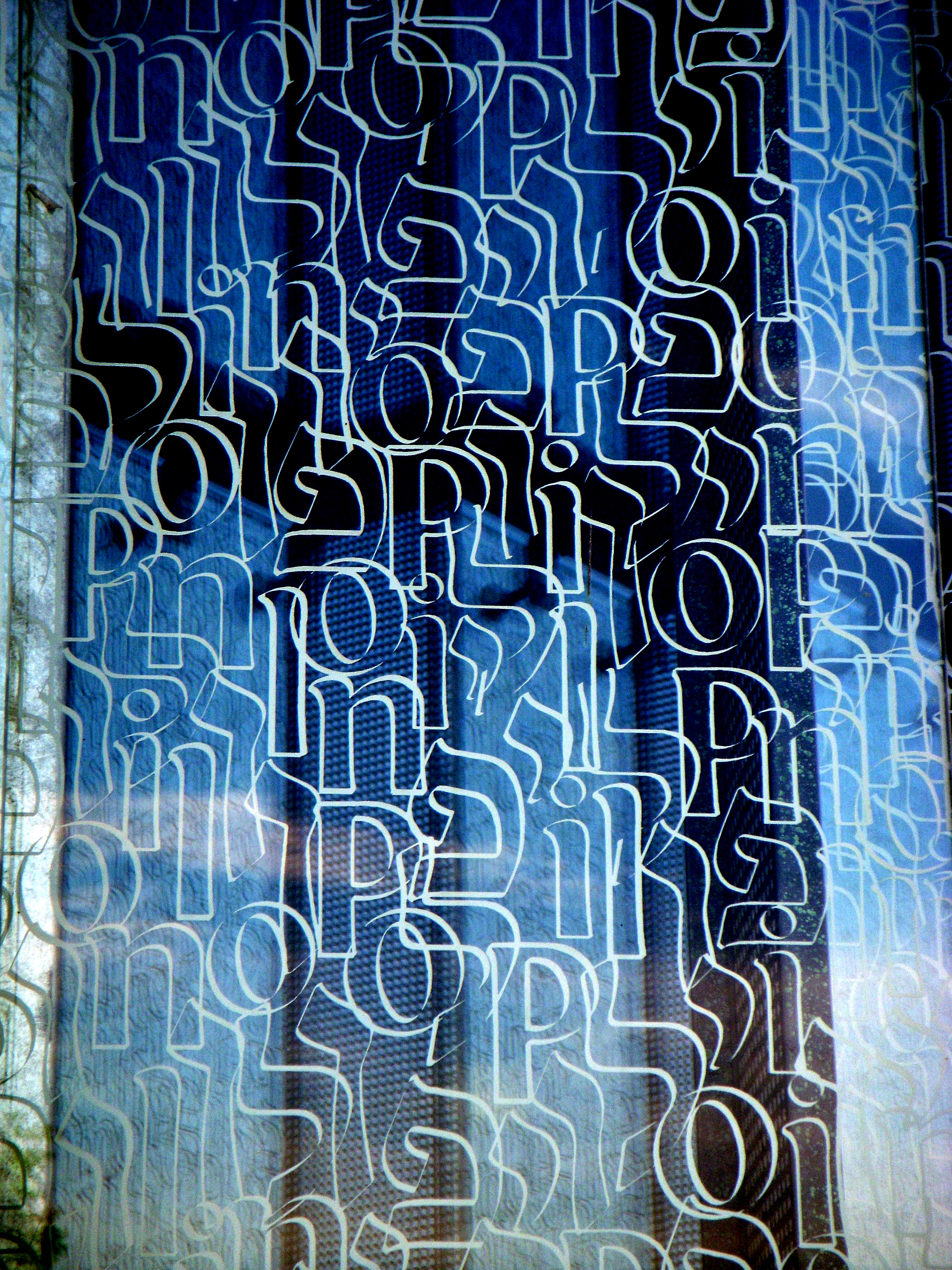 Museum of the History of Polish Jews - Hebrew and Latin letters of the word "Polin" (Hebrew for "Poland" or "you will rest here") on the façade